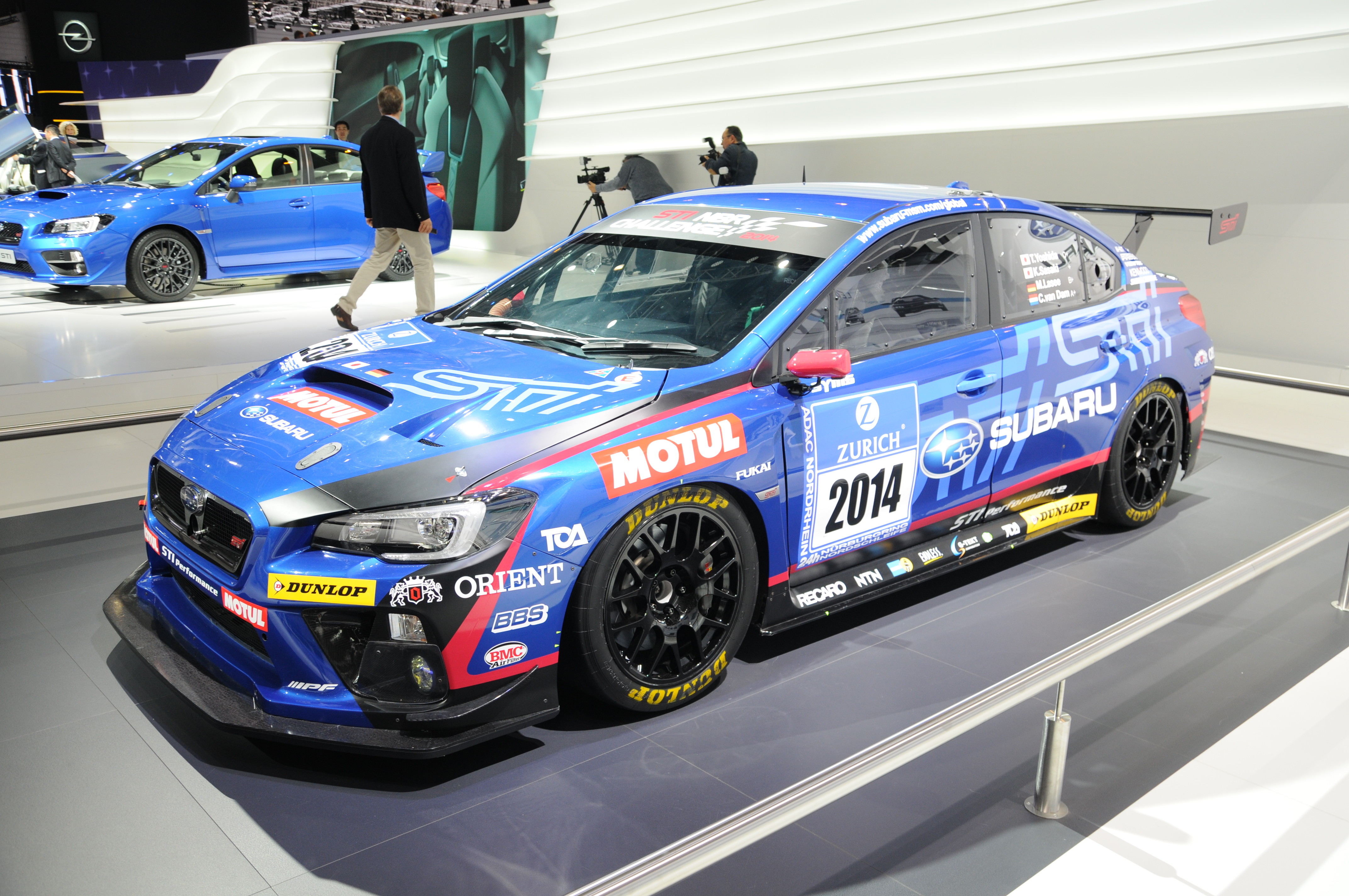 Geneva Motor Show 2014 (photo taken on the first press day)